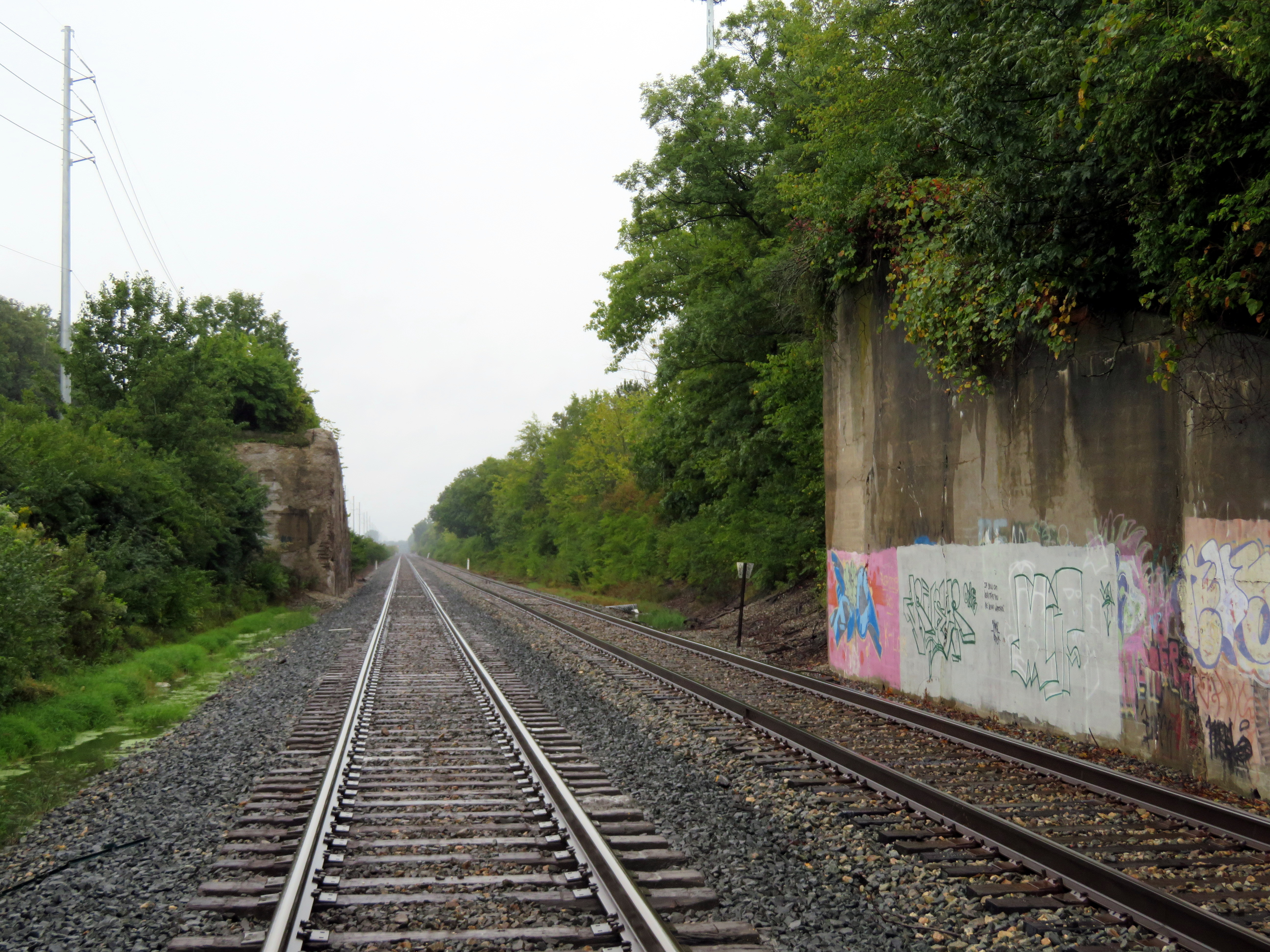 Abutments of the former Columbus, Delaware and Marion Railway overpass in Delaware, Ohio (over what is now the Columbus Subdivision) in September 2018